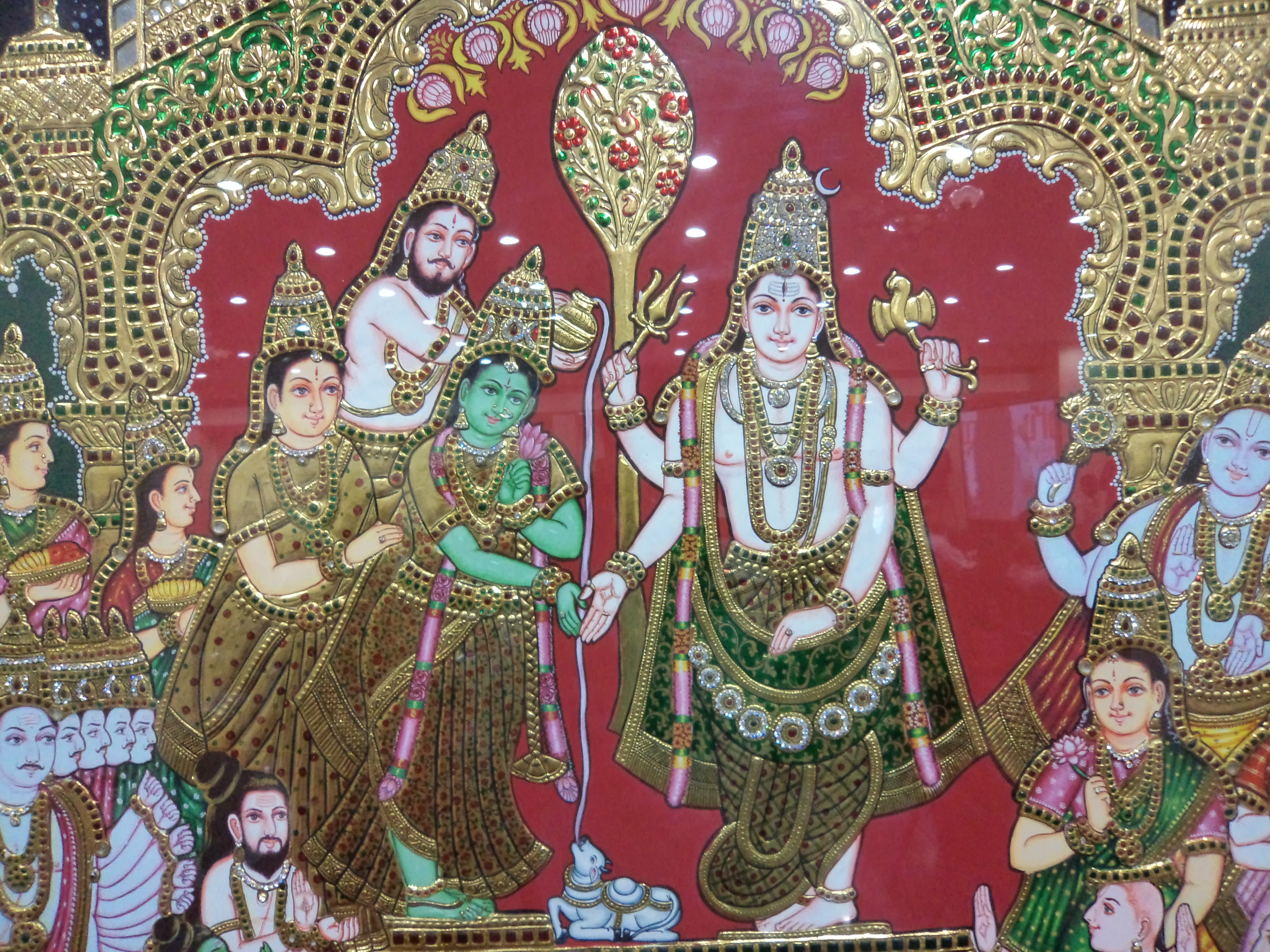 Siva Parvati Kalyanam(originally Meenakshi Sundareswara Wedding)